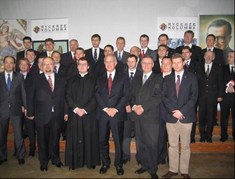 zdjęcie